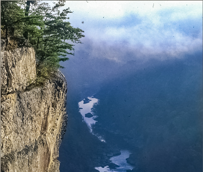 The Cumberland River as it flows through the Big South Fork National Recreation Area near Oneida, TN